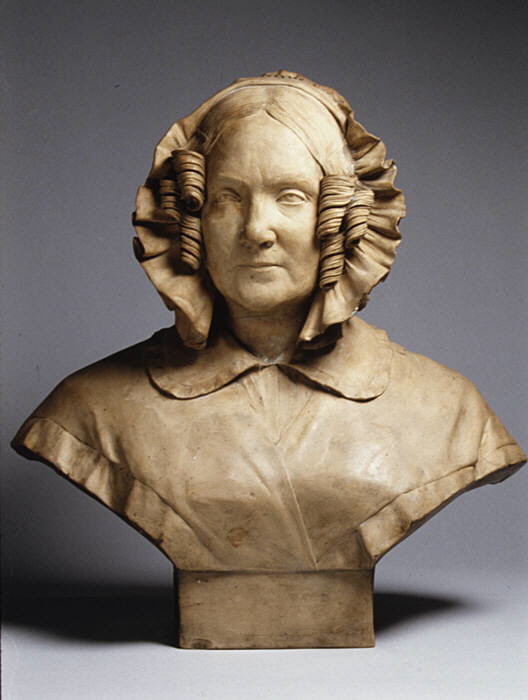 French, Toulon; Bust; Sculpture